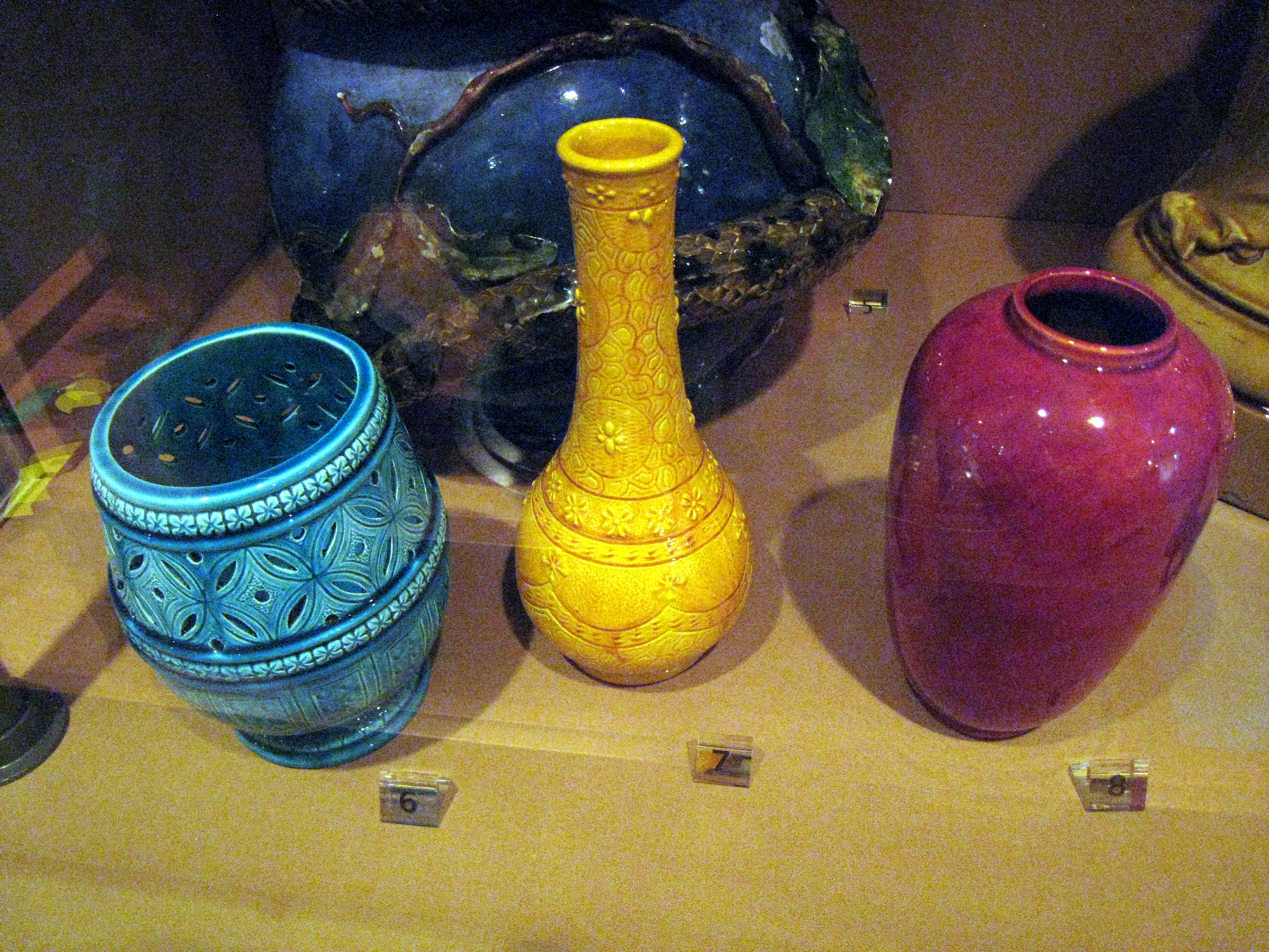 Burmantofts single colour art pottery vases. Turquoise, yellow-orange, oxblood. Leeds Museum.